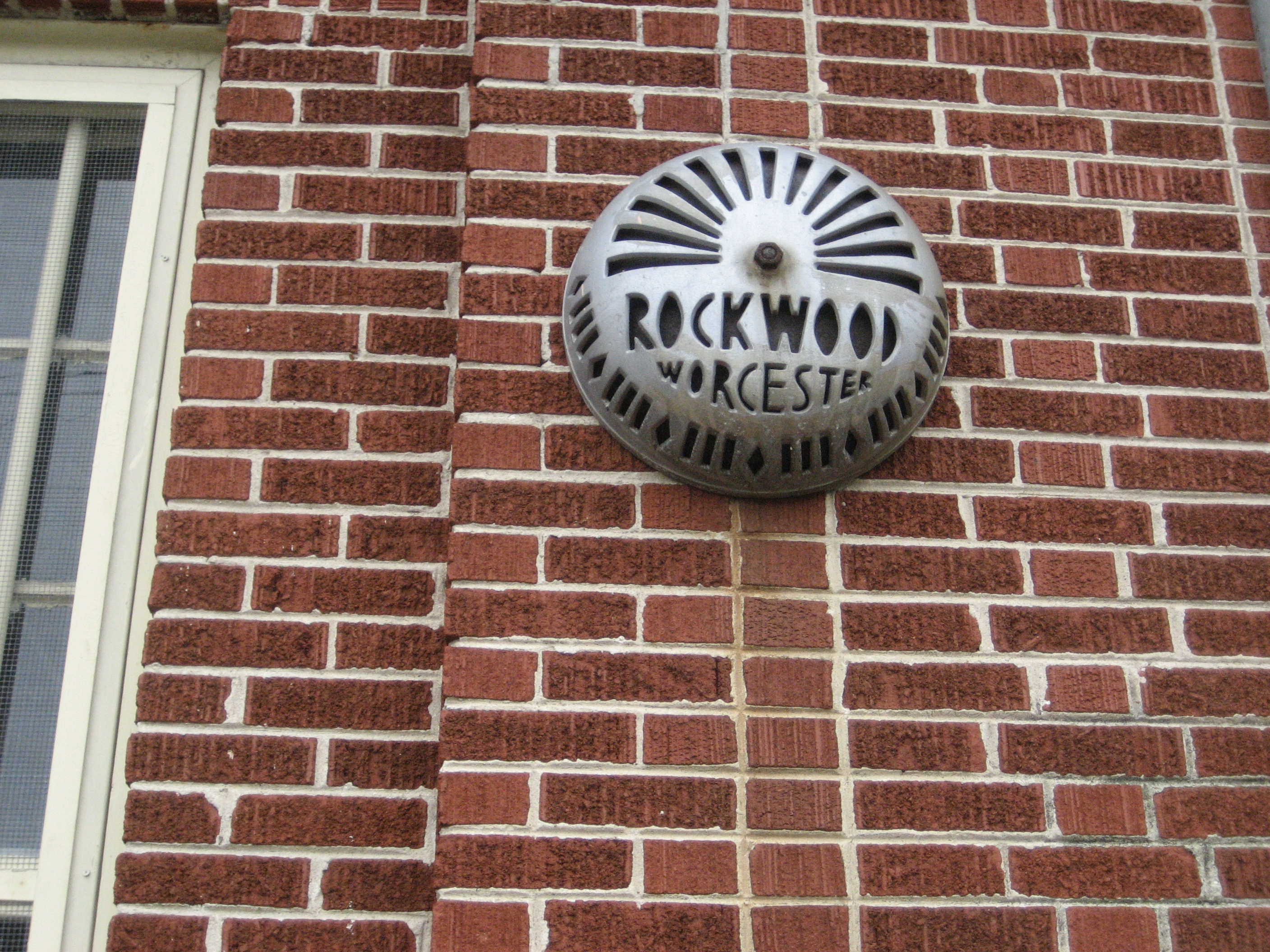 Bell on the side of Our Lady Star of the Sea School, New Orleans